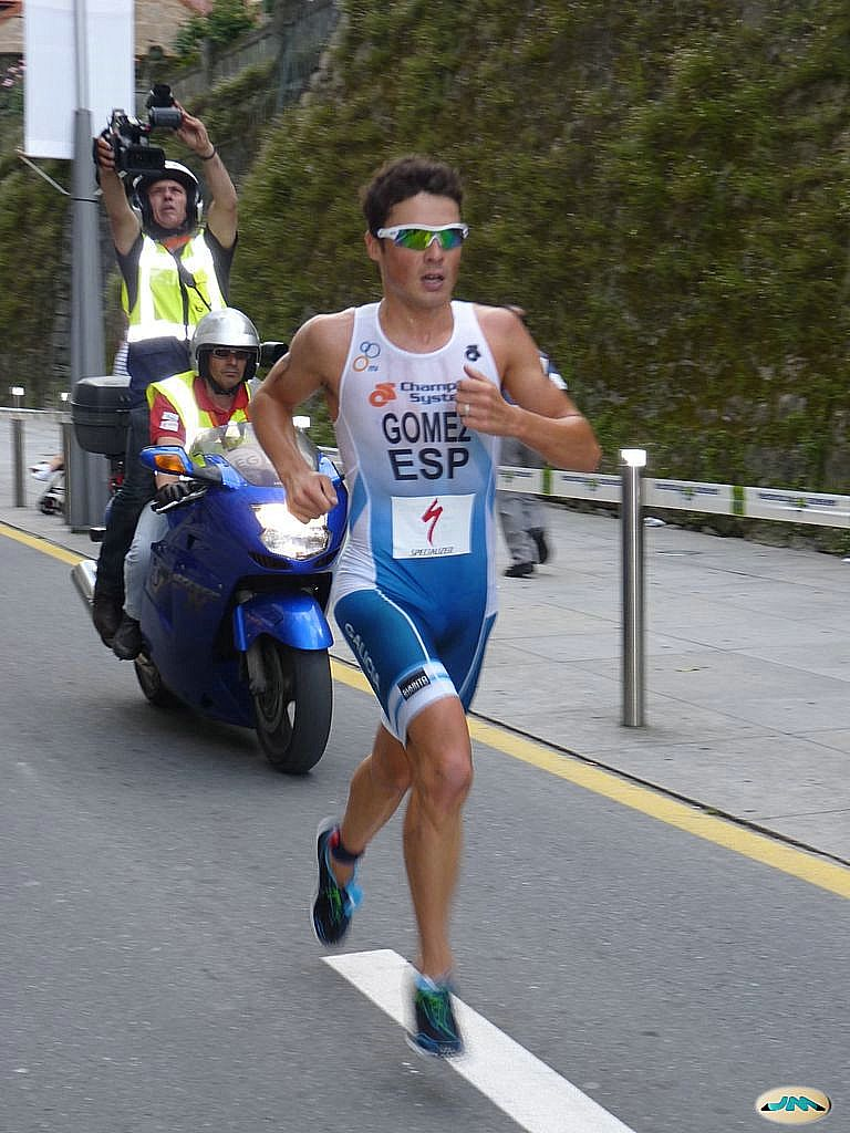 Javier Gómez Noya in 2010